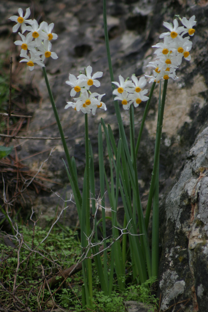 Narcissus tazetta in the Judean hills, west of Jerusalem